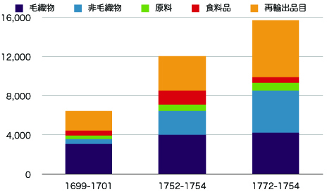 The amount of exports from England, about Commercial Revolution. Purple : woolen fabrics and textiles Blue : other fabrics, for instance cotton Green : raw materials Red : foods Orange : reexportation I made the picture with Photoshop and so on.